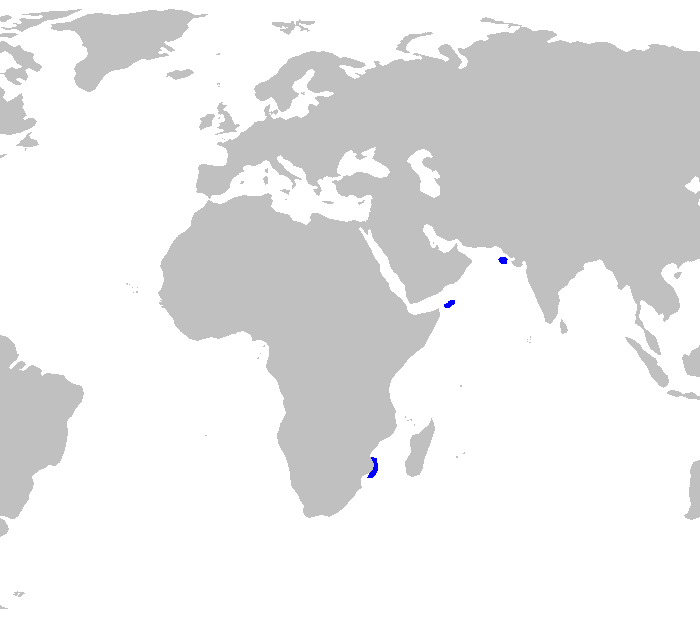 Distribution map for Pristiophorus sp D